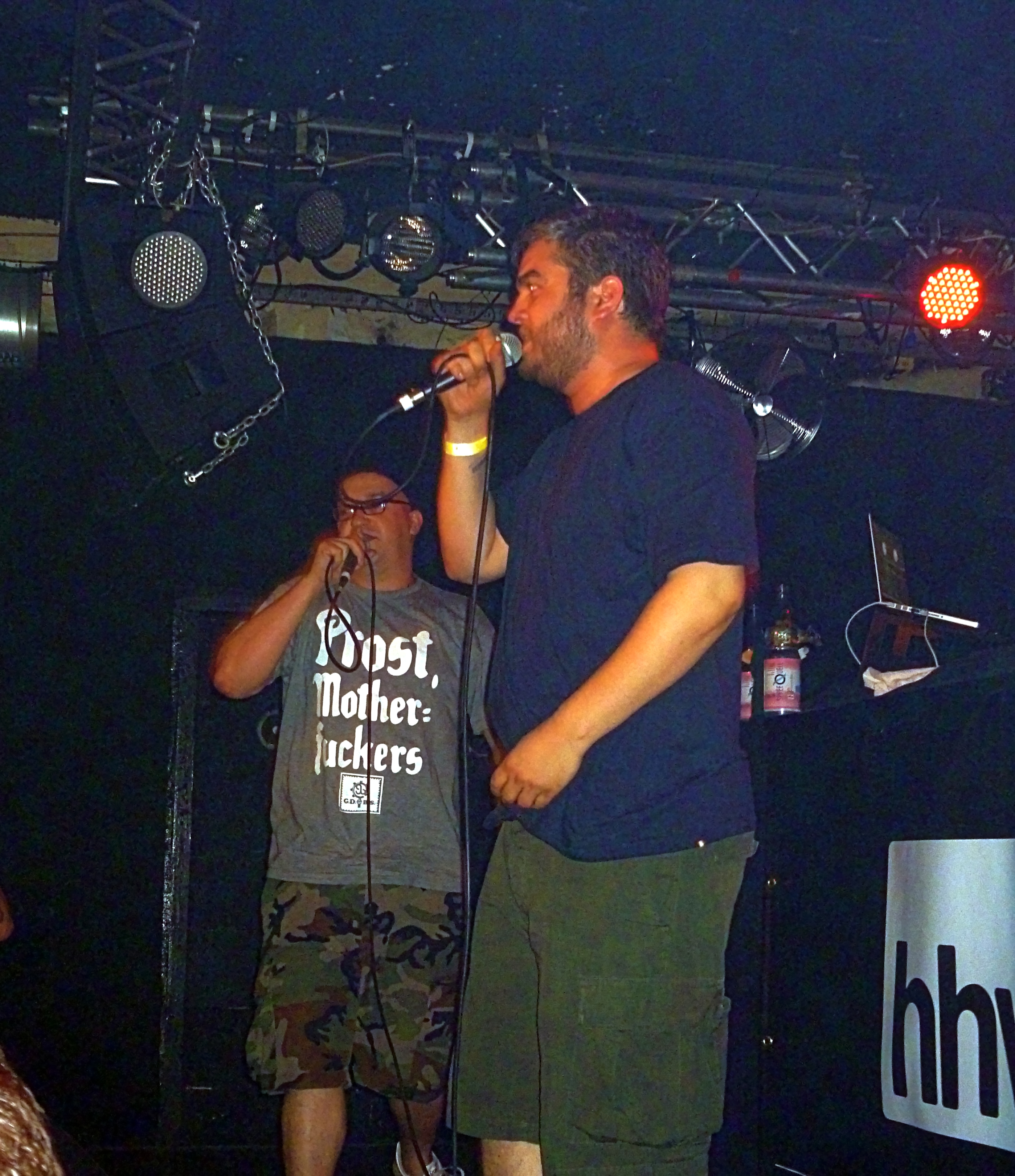 German rap duo Audio88 & Yassin performing in Berlin, Summer 2012